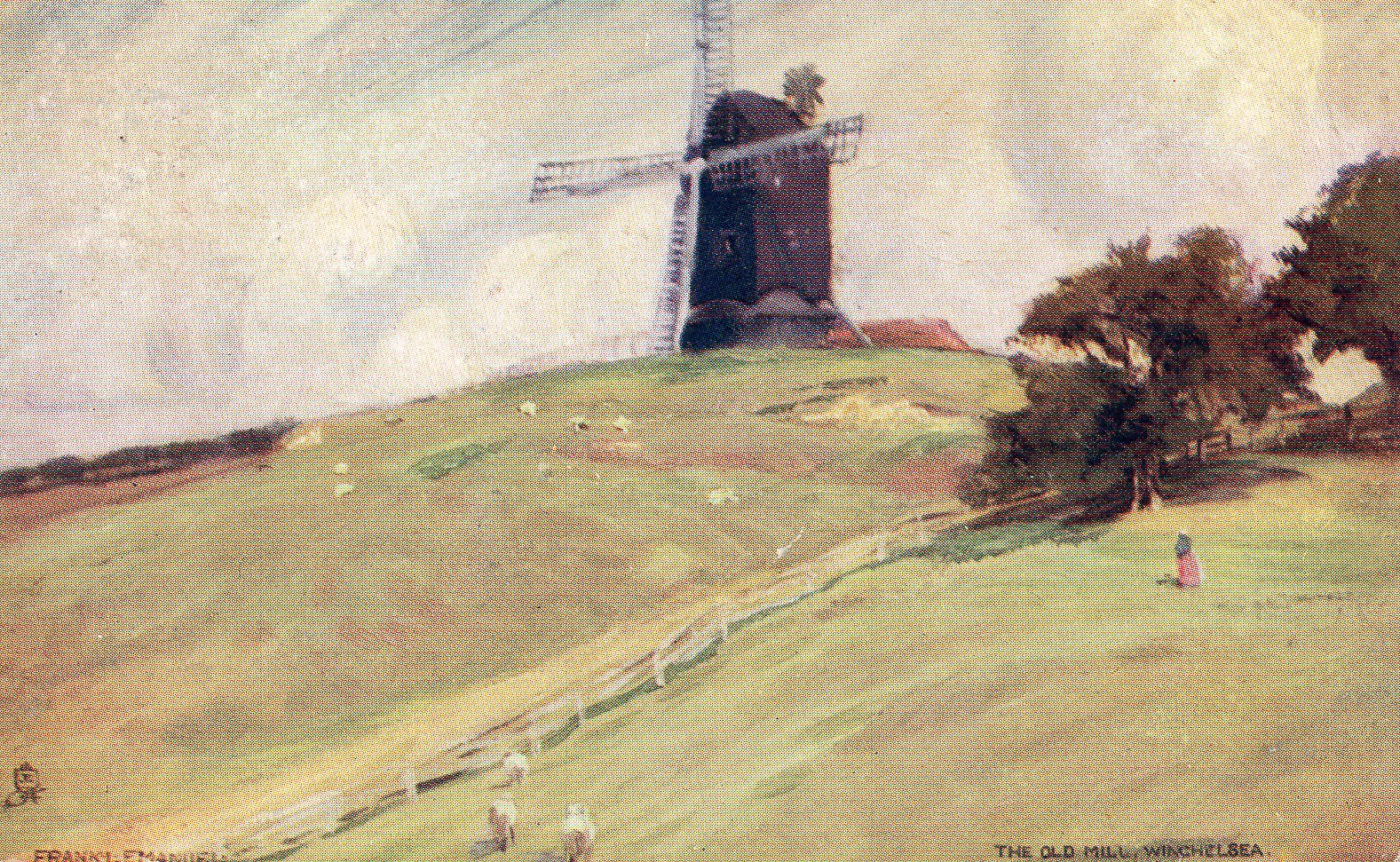 St Leonard's Mill, Winchelsea from an old postcard. Artist Frank Emanuel. Postally used 22-9-1905